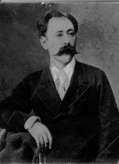 The Baron Moritz Von Hirsch, the great Jewish philanthropist with whom Herzl negotiated.